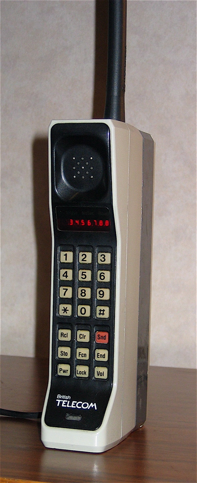 A Motorola DynaTAC 8000X from 1984. This phone has an early British Telecom badge and primitive red LED display.